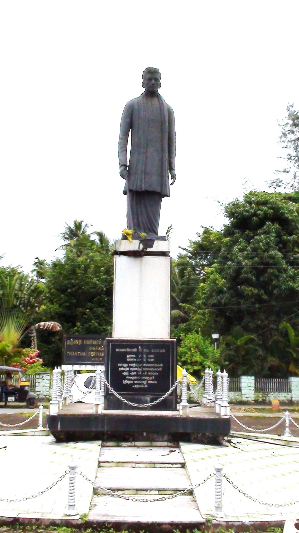 T. K. Madhavan's statue in Arpookkara, Kottayam City, Alappuzha, India 9°45'26"N 76°23'45"E